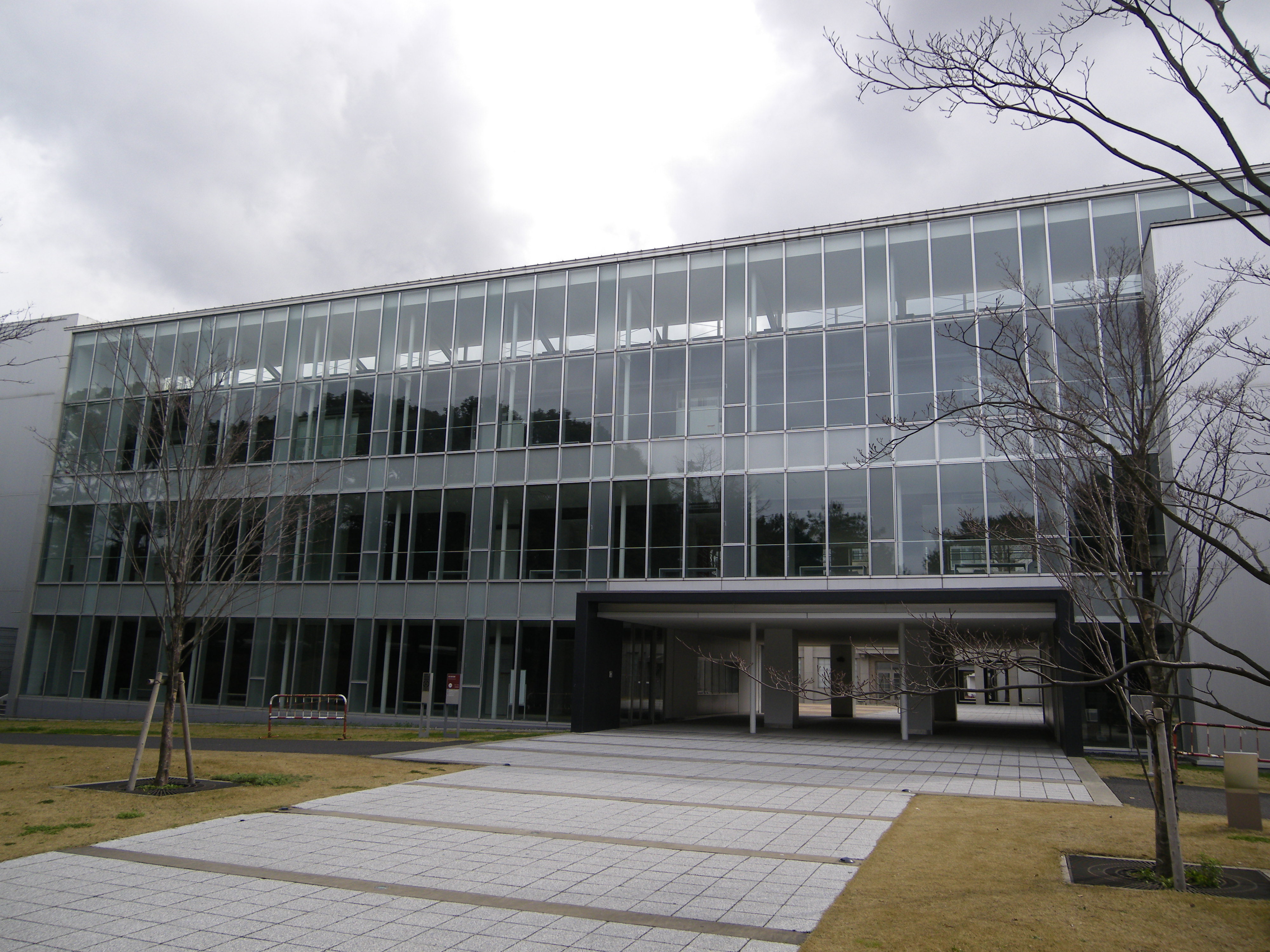 The General Educational Building in Tobata Campus,Kyushu Institute of Technology.